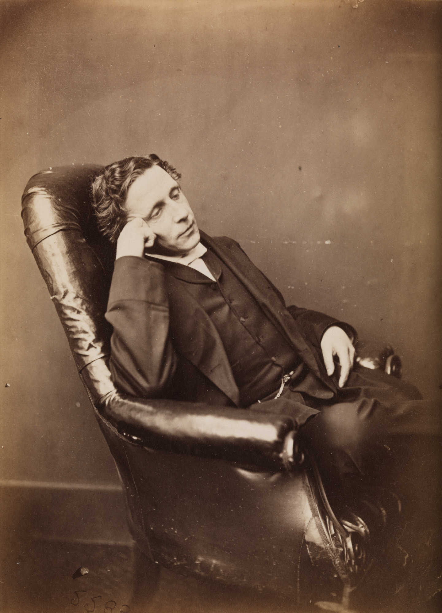 By Charles Lutwidge Dodgson Reverend Charles Lutwidge Dodgson (1832-1898) is better known by his pseudonym, Lewis Carroll. He was an English writer, mathematician, Anglican deacon and photographer. His most famous story is that of Alice’s Adventures in Wonderland published in 1865. This self portrait was probably taken in his room at Christ Church, Oxford. It was probably taken to check that his camera and chemicals were in good working order after being stored during the winter months. Dodgson made a portrait of John Ruskin who appears to be sitting in the same chair.